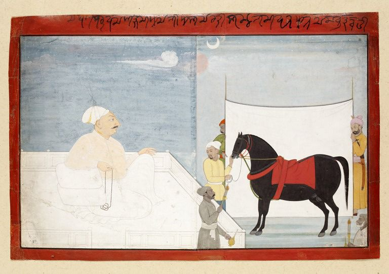 Miniature by Nainsukh (c. 1710-1778), Victoria and Albert Museum, London, Height: 18.5 cm, Width: 26 cm, ( link) V&A comments: On the left, a ruler is seated on a white marble terrace; identified as Raja Dhrub Dev in the inscription. The soft and limited colour palette create a sensitive portrayal of the figure. On the right, five attendants stand near a horse, each engrossed in their task. Two are holding up a white sheet to frame the figure of a horse standing in the foreground. One controls the horse, while the final two bear torches aloft. The recognisable work of the painter Nainsukh is evident on the right, with the detailed and meticulous details awarded these subsidiary characters. This painting consists of two painted halves, joined together near the centre creating an integral work where the balustrade of the terrace extends into across the join. Whether or not more than one artist was involved in its production remains to be confirmed.